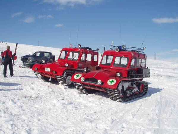 Various equipment, including two Aktiv Snow Trac ST4 units which are owned & used in northern Iceland by a volunteer rescue unit, similar to a local Volunteer Fire Department's ambulance and rescue crew.